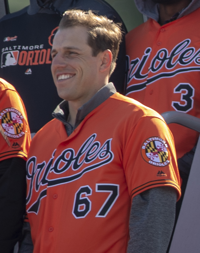 The Baltimore Orioles visit the United States Naval Academy in March 2019